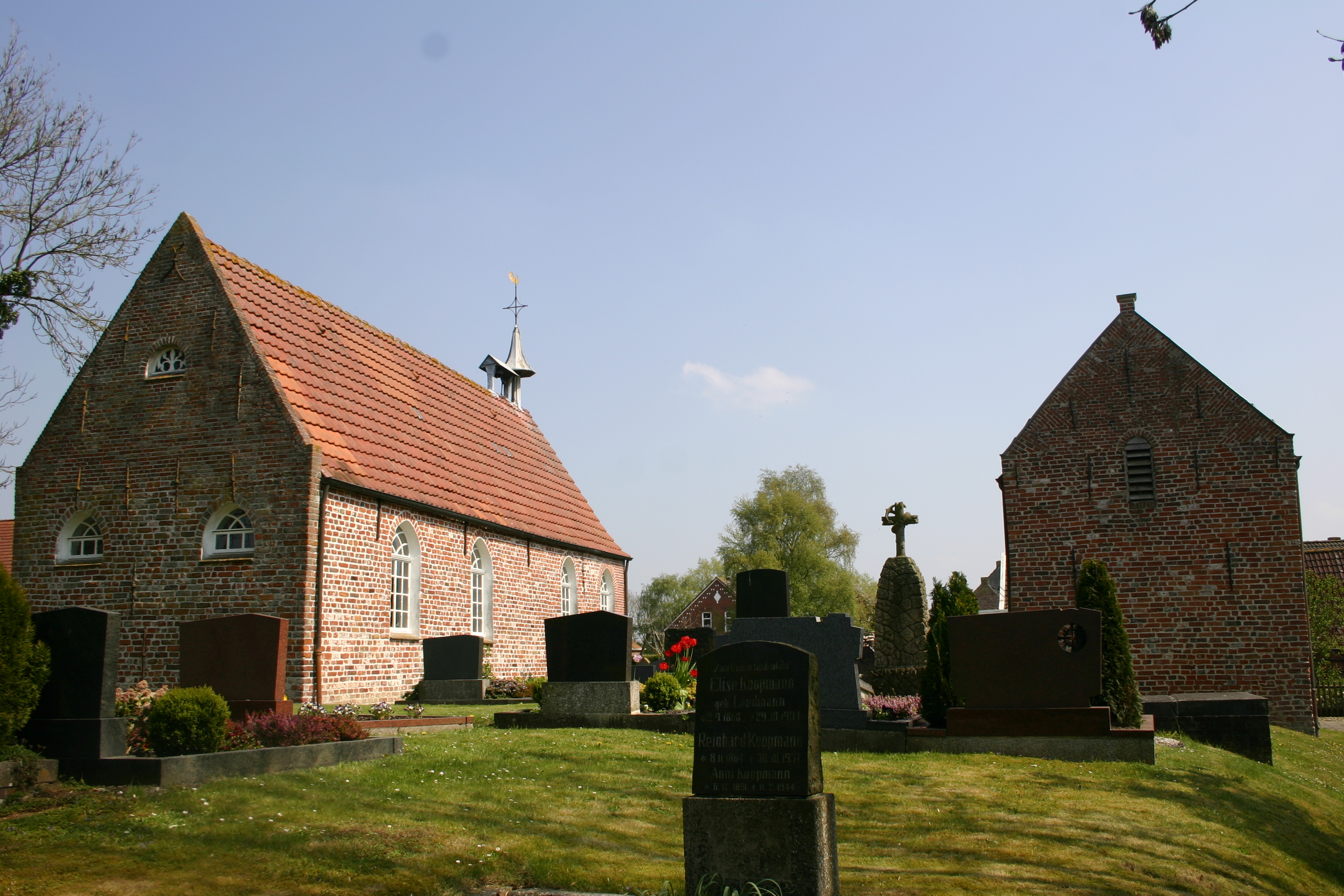 Historic church in Woltzeten, district of Aurich, East Frisia, Germany